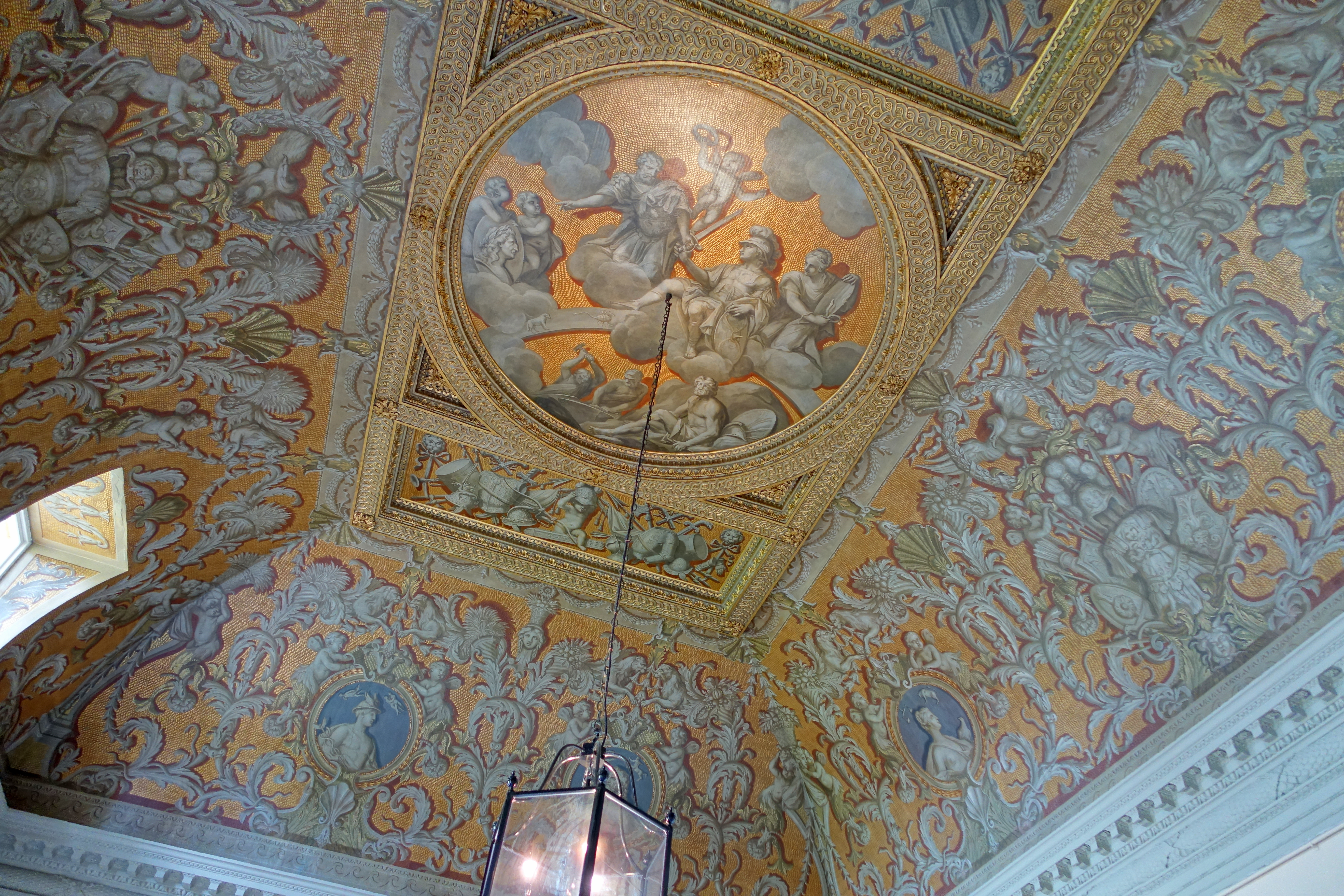 Interior view of Stowe House - Buckinghamshire, England.